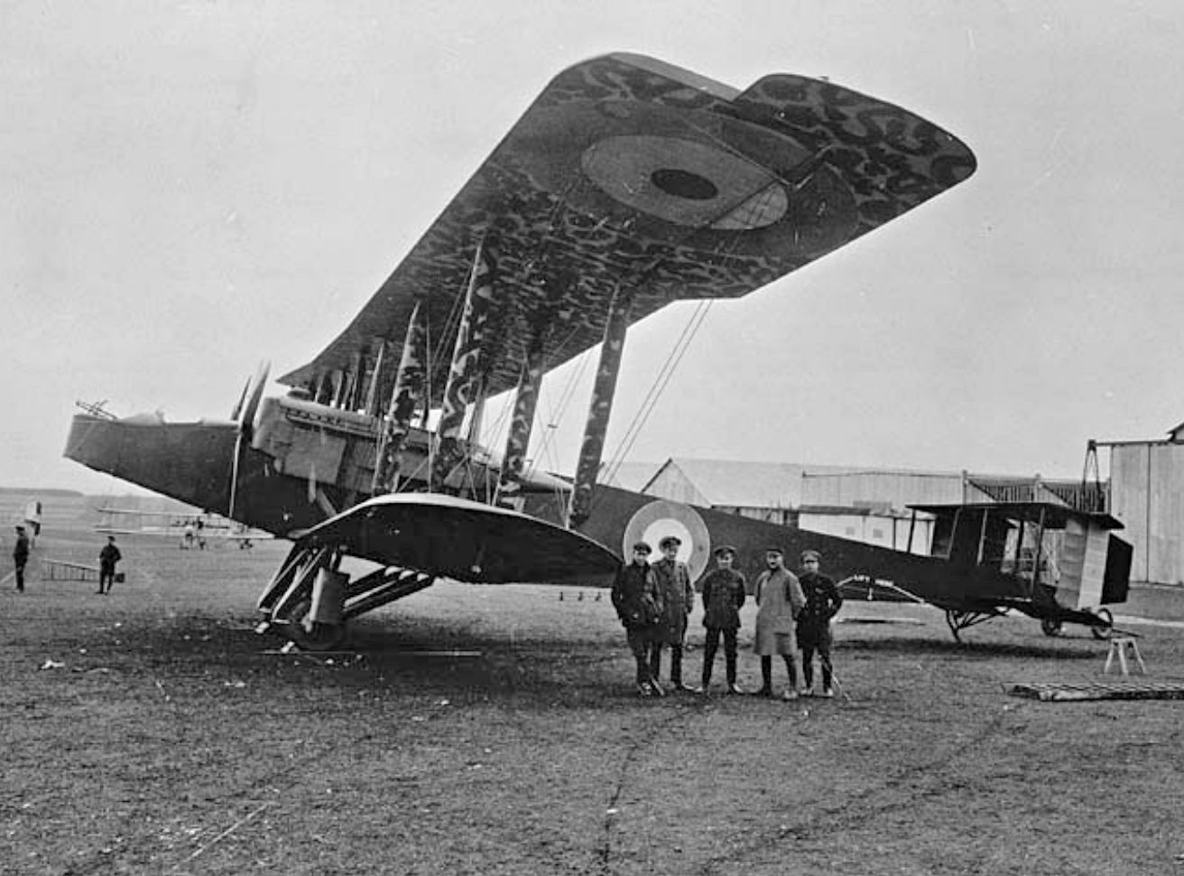 Handley Page O/100 aircraft 1459 "Le Tigre" of No. 3 Wing, R.N.A.S., March en:1917, Ochey, France. (Waller, Jones, Stedman, Chazard, Wright)